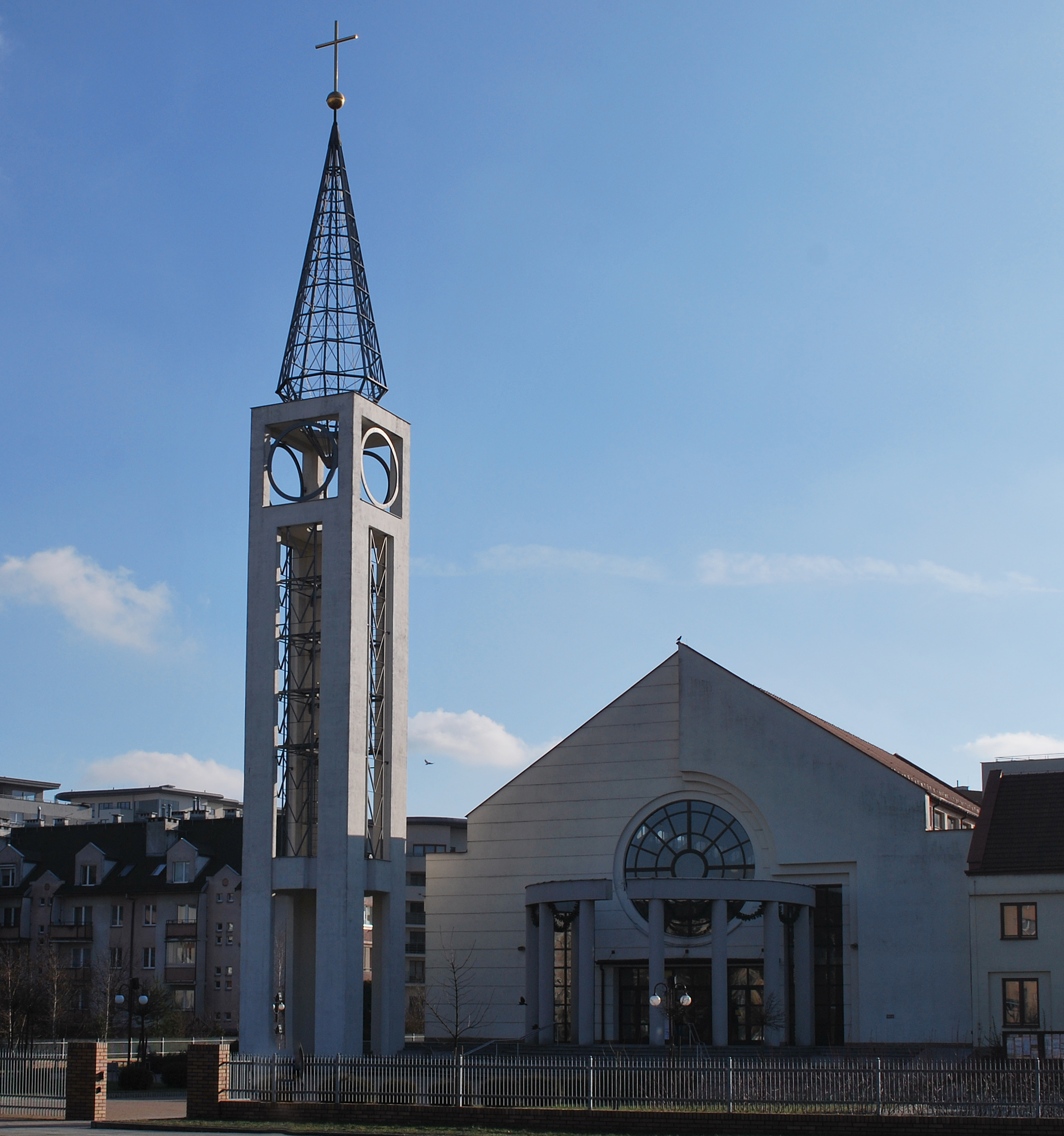 Church of Pentecost, 13 Rostworowskiego street, Krakow, Poland